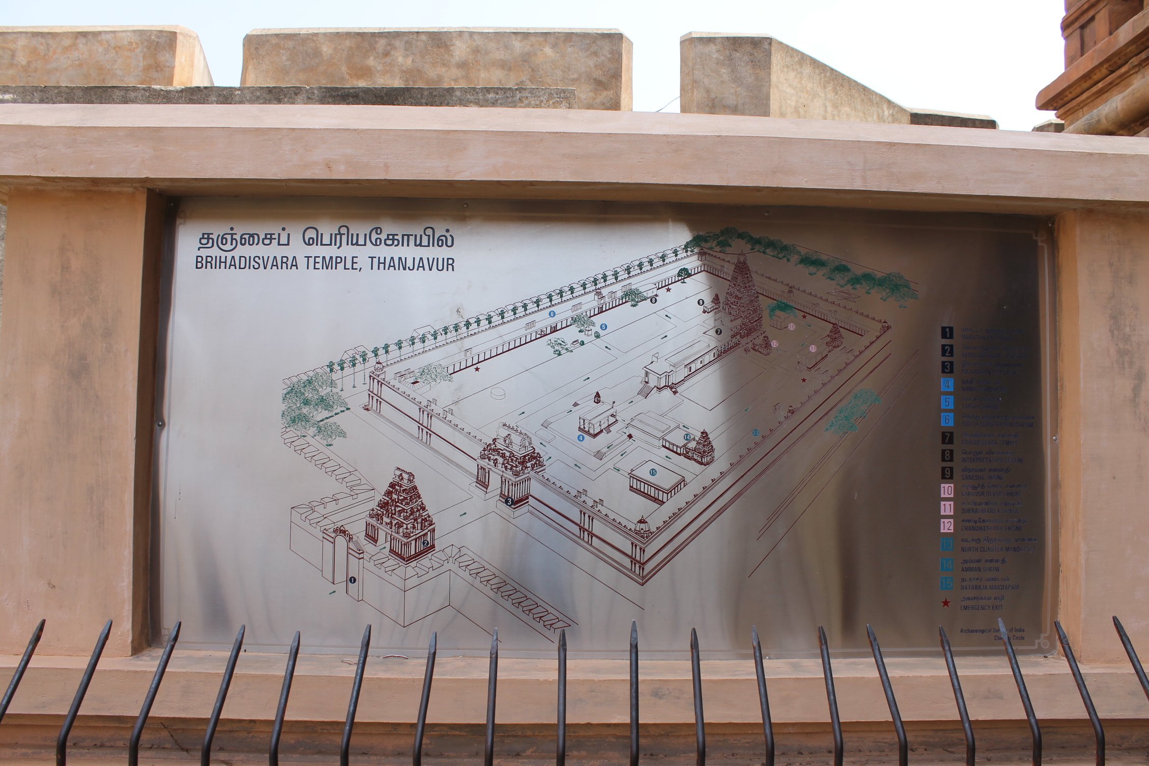 "A Illustrated Site Map of the The Big Temple". Location: Thanjavur, Tamil Nadu, India. UNESCO declared this monument as world heritage symbol.